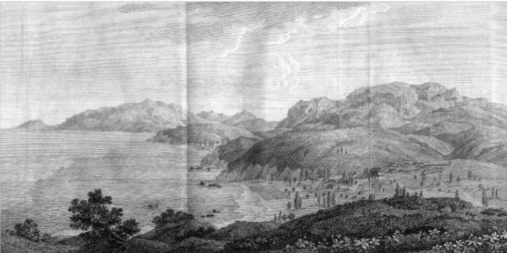 Sheet from an album to the second part of edition of П.И.Сумарокова "Leisures of the Crimean judge or Second trip to Taurida".